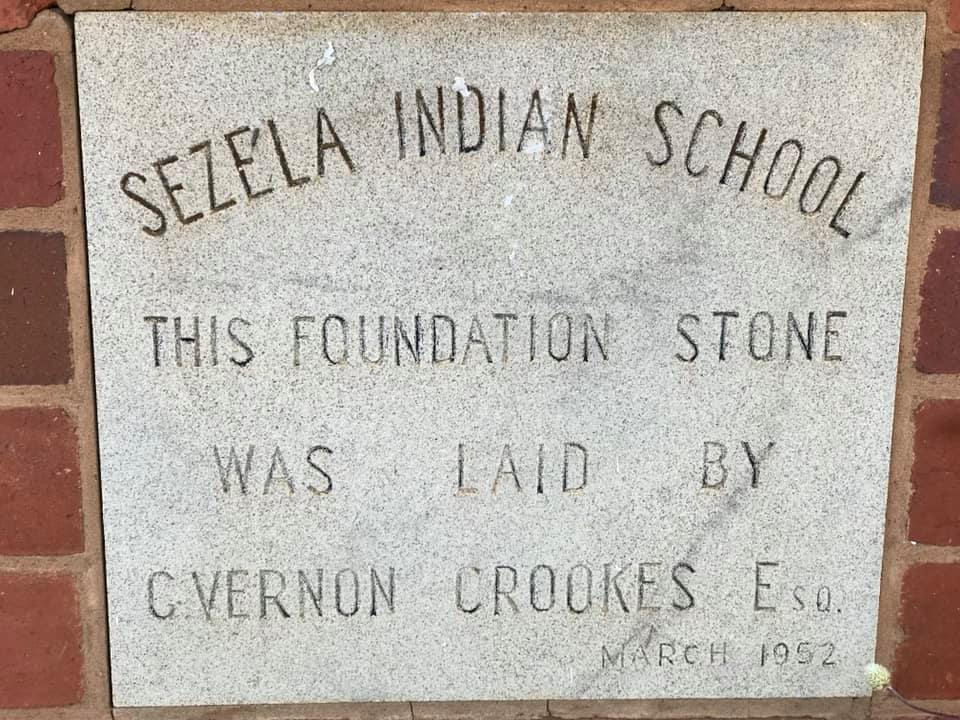 Sezela Primary School Foundation Stone laid by Vernon Crookes